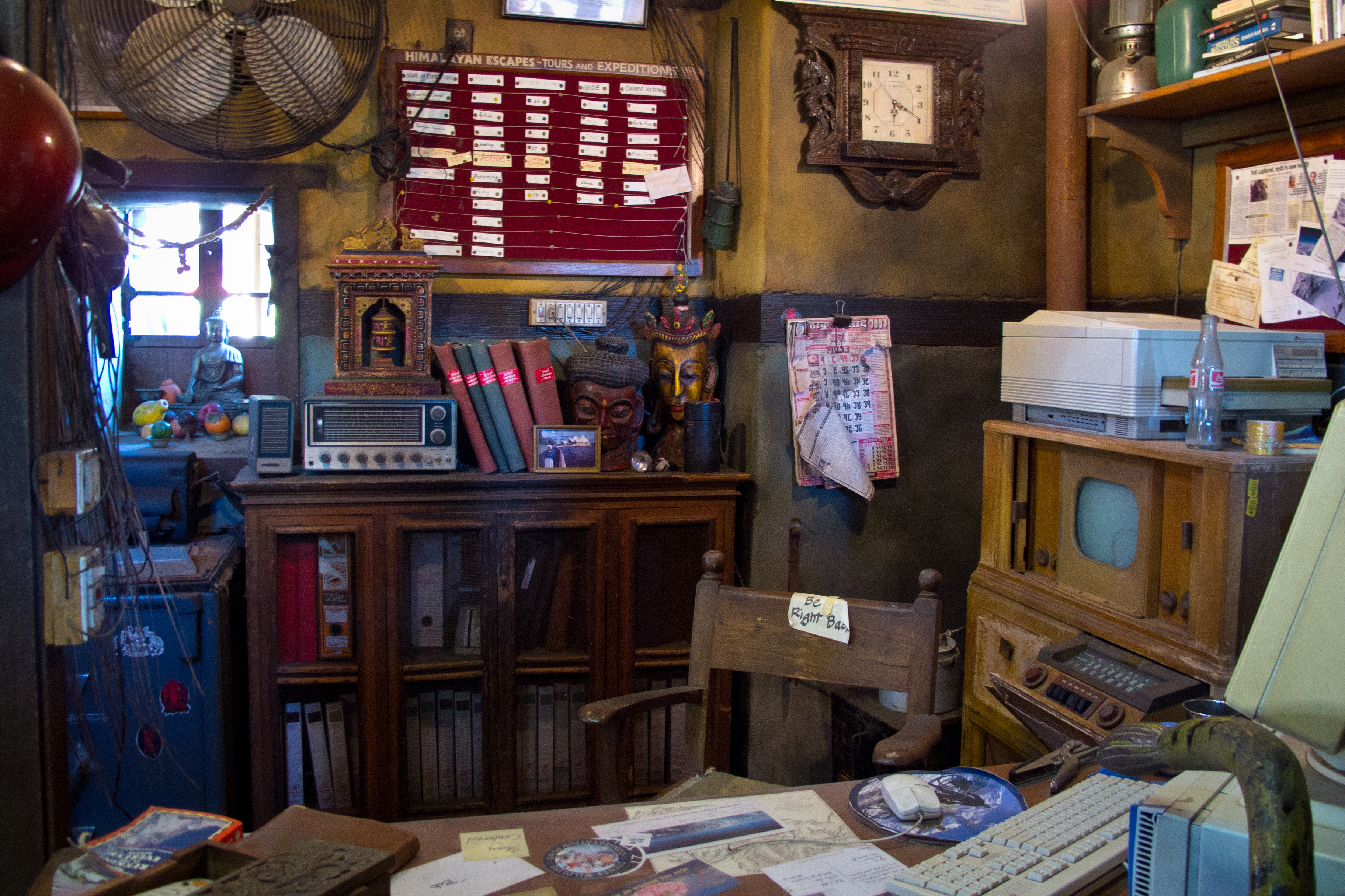 A look at the waiting area for Expedition Everest in the Animal Kingdom.